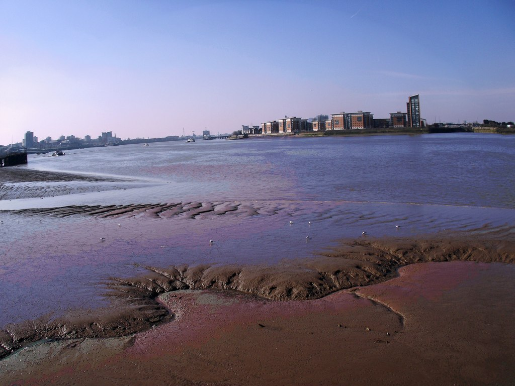 Quicksand